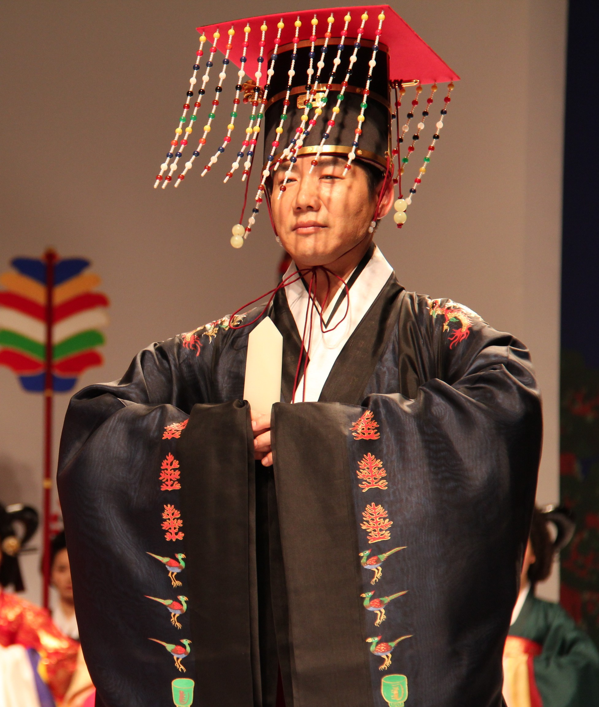 A special performance to showcase Korea's traditional music and dress is being held at the National Museum of Korea.